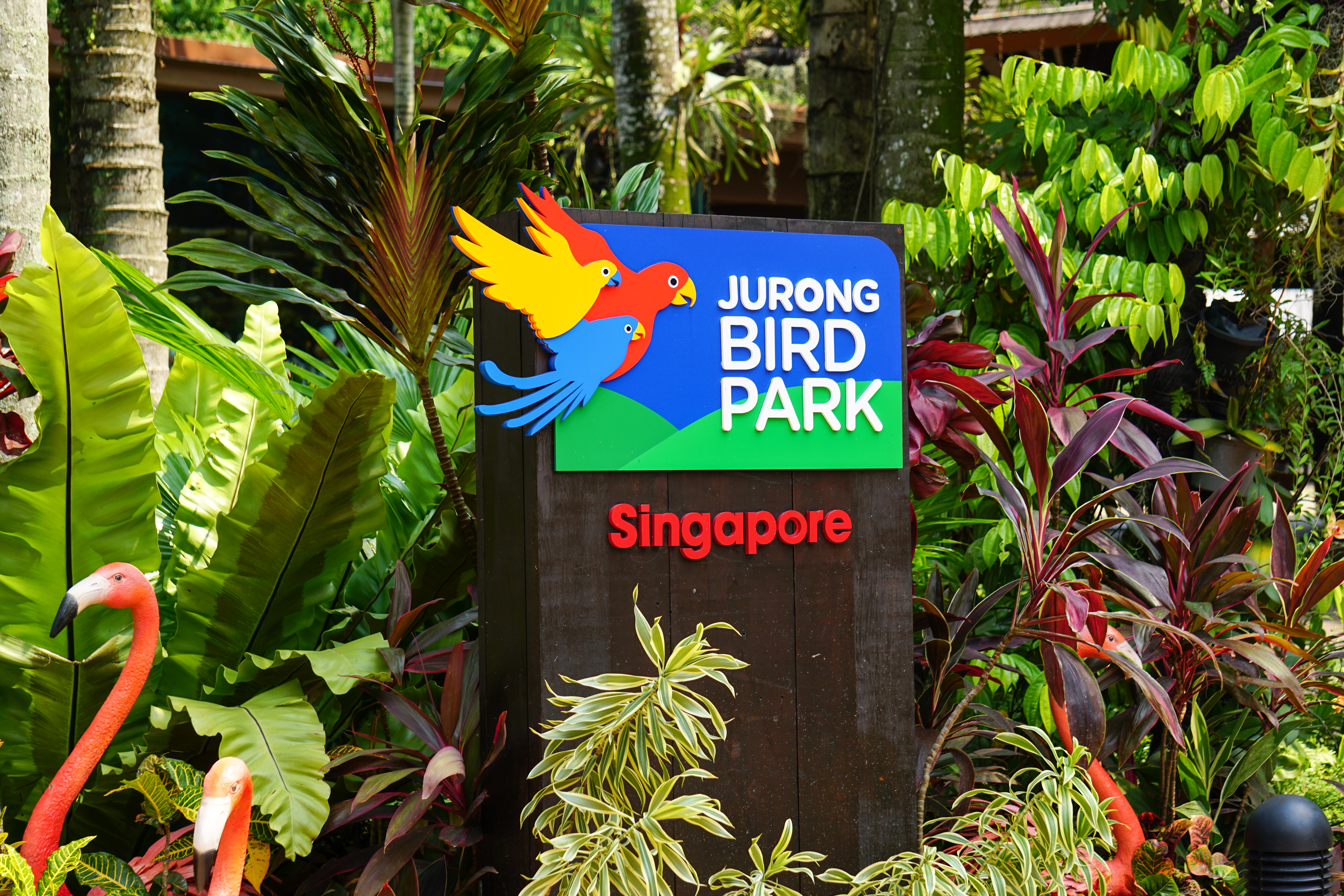 A sign at Jurong Bird Park in 2014